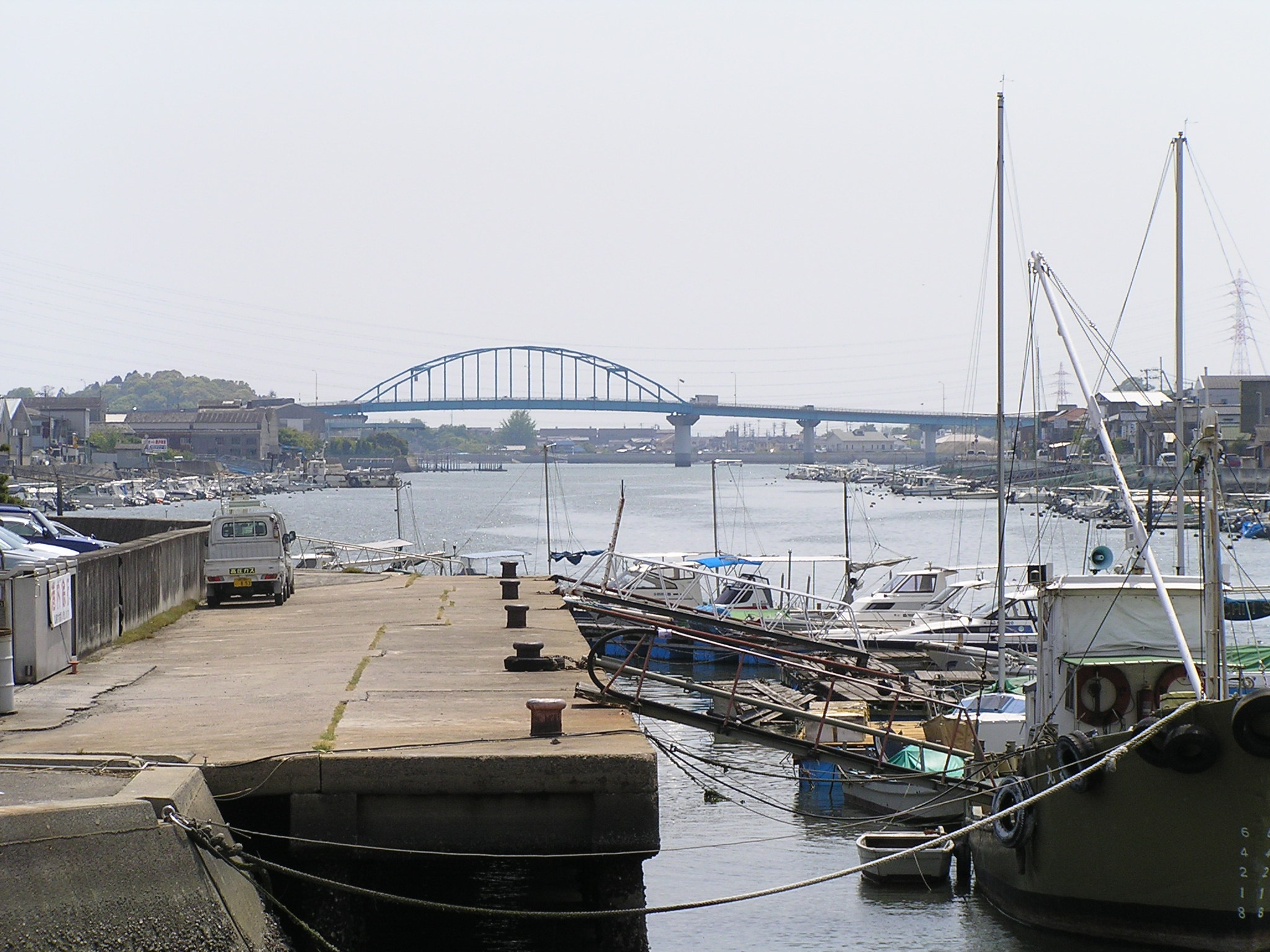 Tamashima port and Tamashima Ohashi bridge